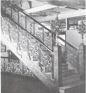 Cast aluminum staircase, Monadnock Building, 53 West Jackson Boulevard, Chicago, Illinois. Burnham & Root, architects. Winslow Brothers Co., foundry.